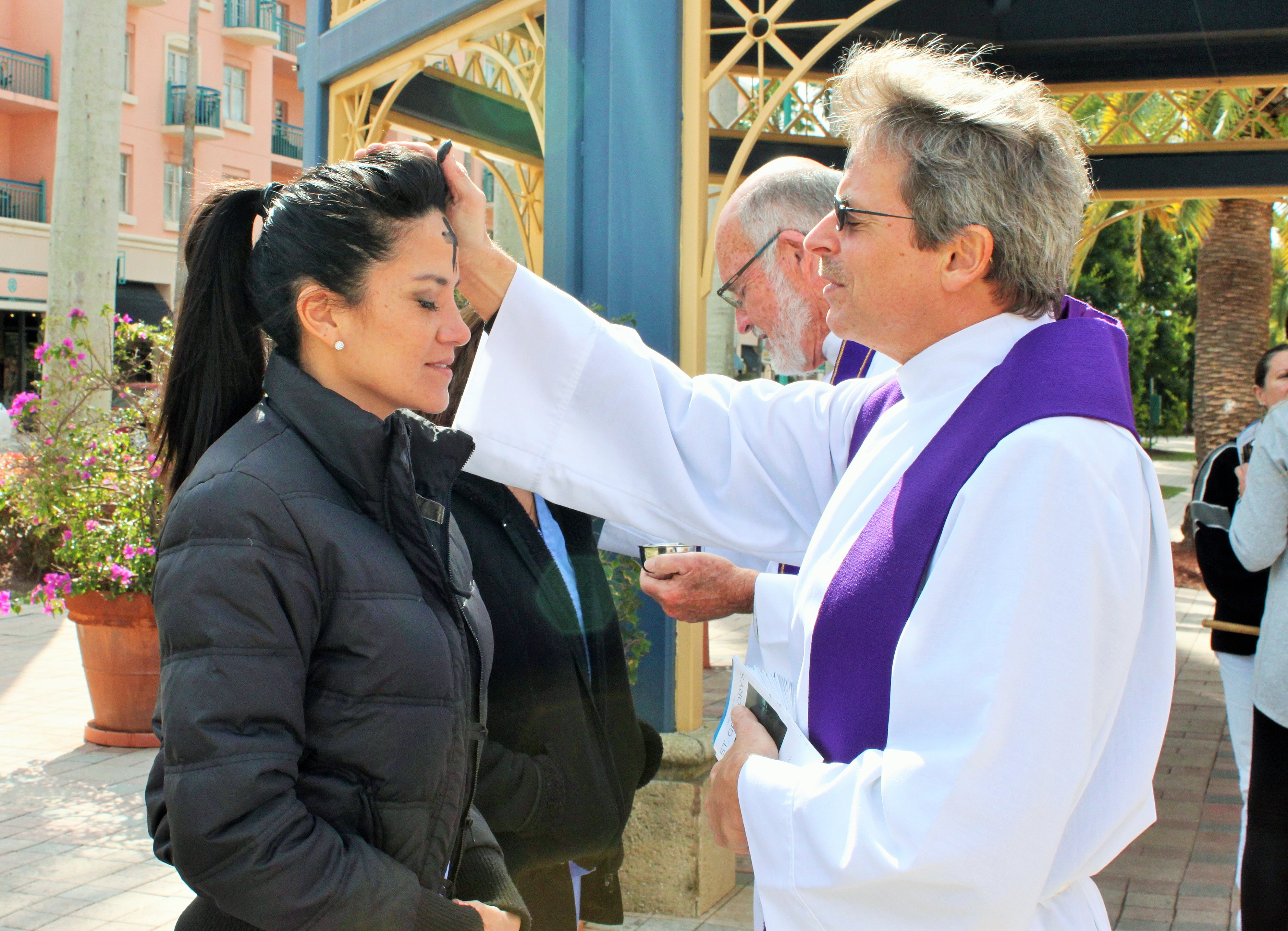 The image depicts St. Gregory's Episcopal Church's Ashes to Go station on Ash Wednesday in 2017 that was positioned at Mizner Park in Florida. Fr. Andrew Sherman and Fr. Craig Burlington are pictured distributing ashes to people in Boca Raton, Florida. This picture was clicked on March 1, 2017.